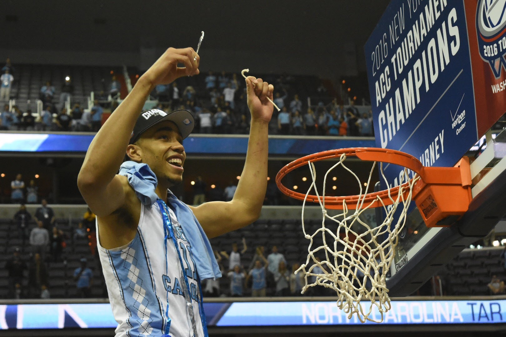 Brice Johnson celebrates the 2016 ACC Tournament Championship he won with the North Carolina Tar Heels in Washington, D.C.